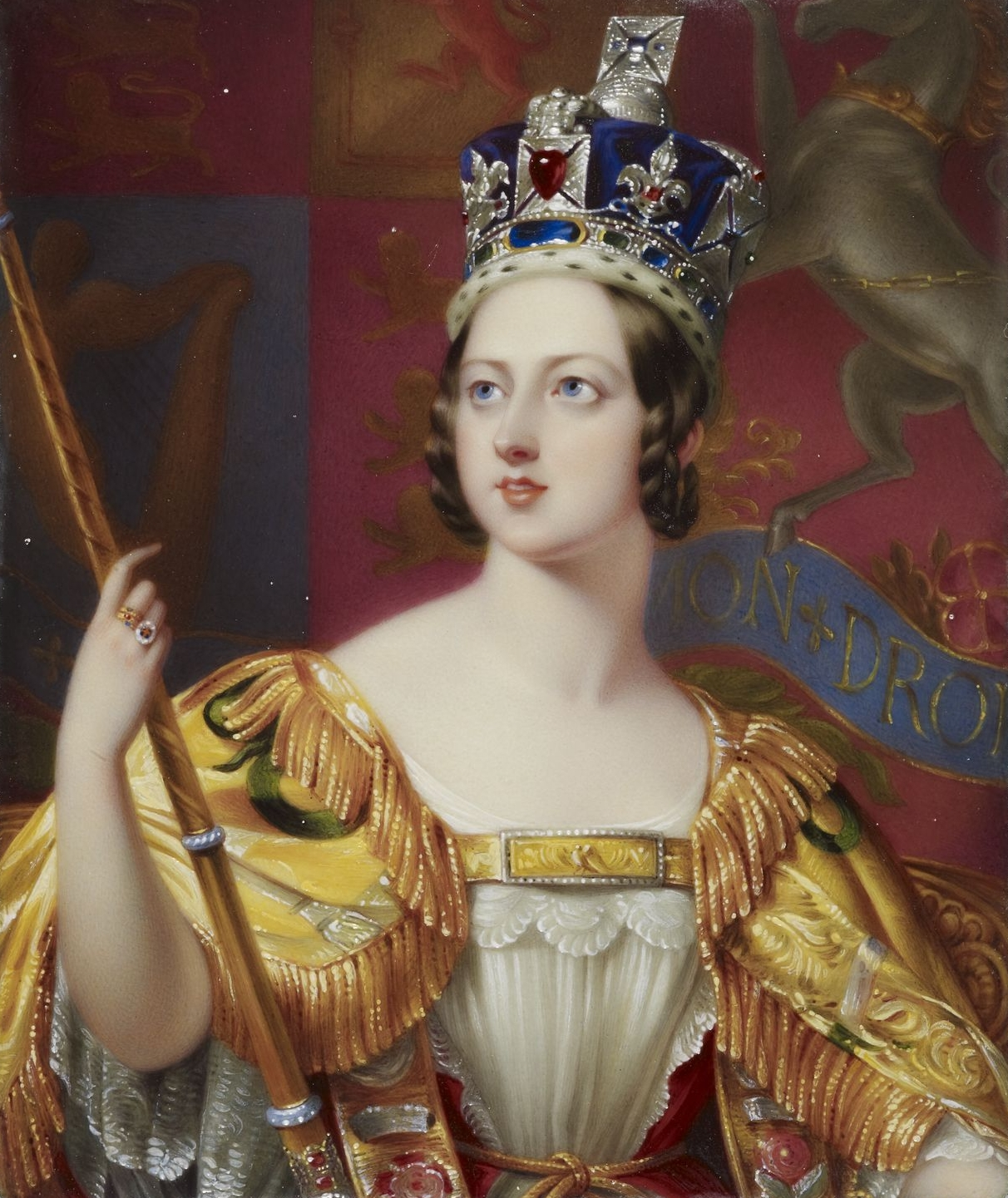 Portrait miniature of Hayter's 1838 state portrait of Queen Victoria. Part of the 'Bone Set of Enamels of the English Sovereigns and Queens from Edwd. III to Queen Victoria.'